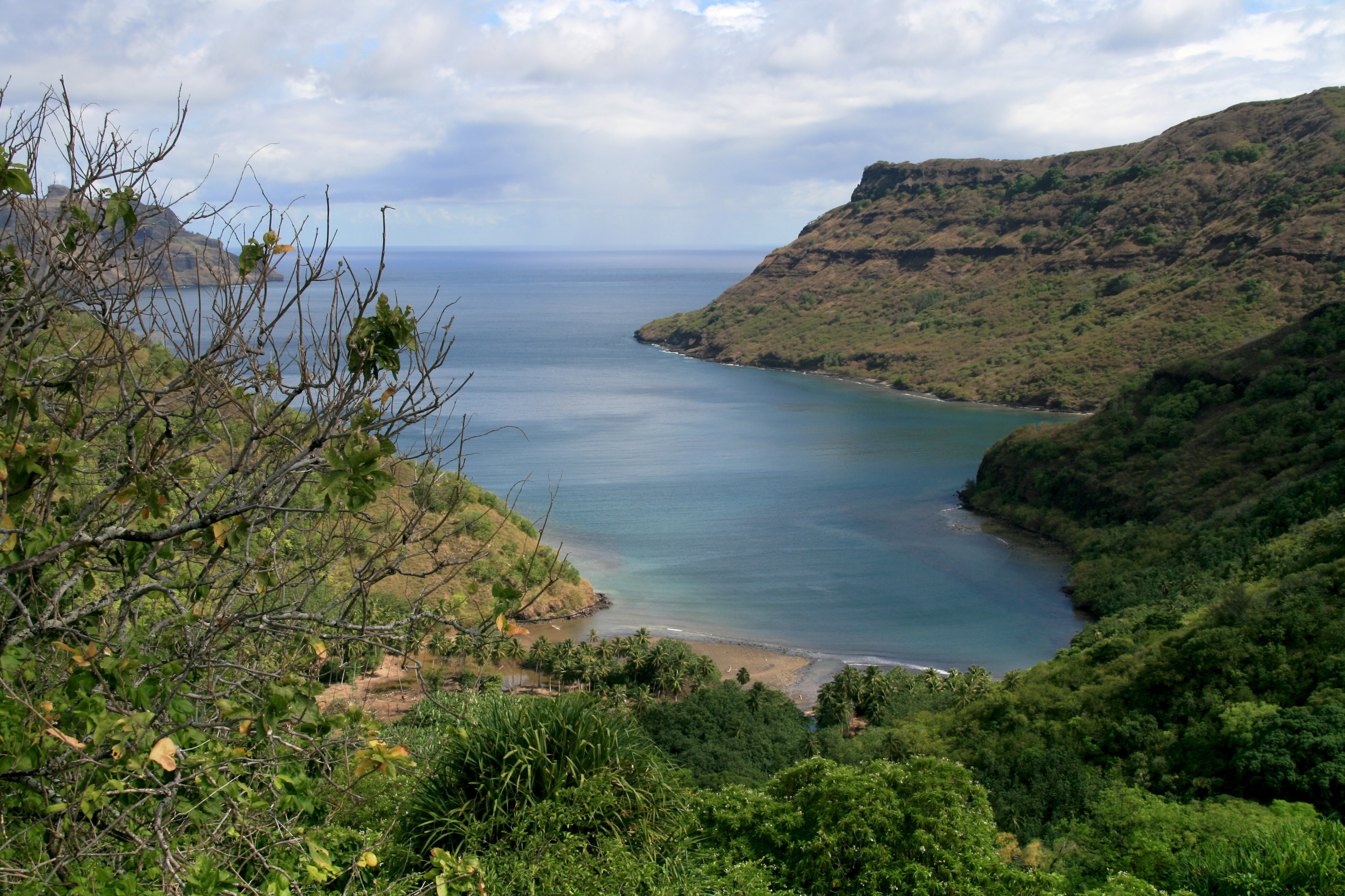 Hakapaa Bay, in the southeast of Nuku-Hiva, just west of Taipivai Bay, Marquesas Islands, French Polynesia.